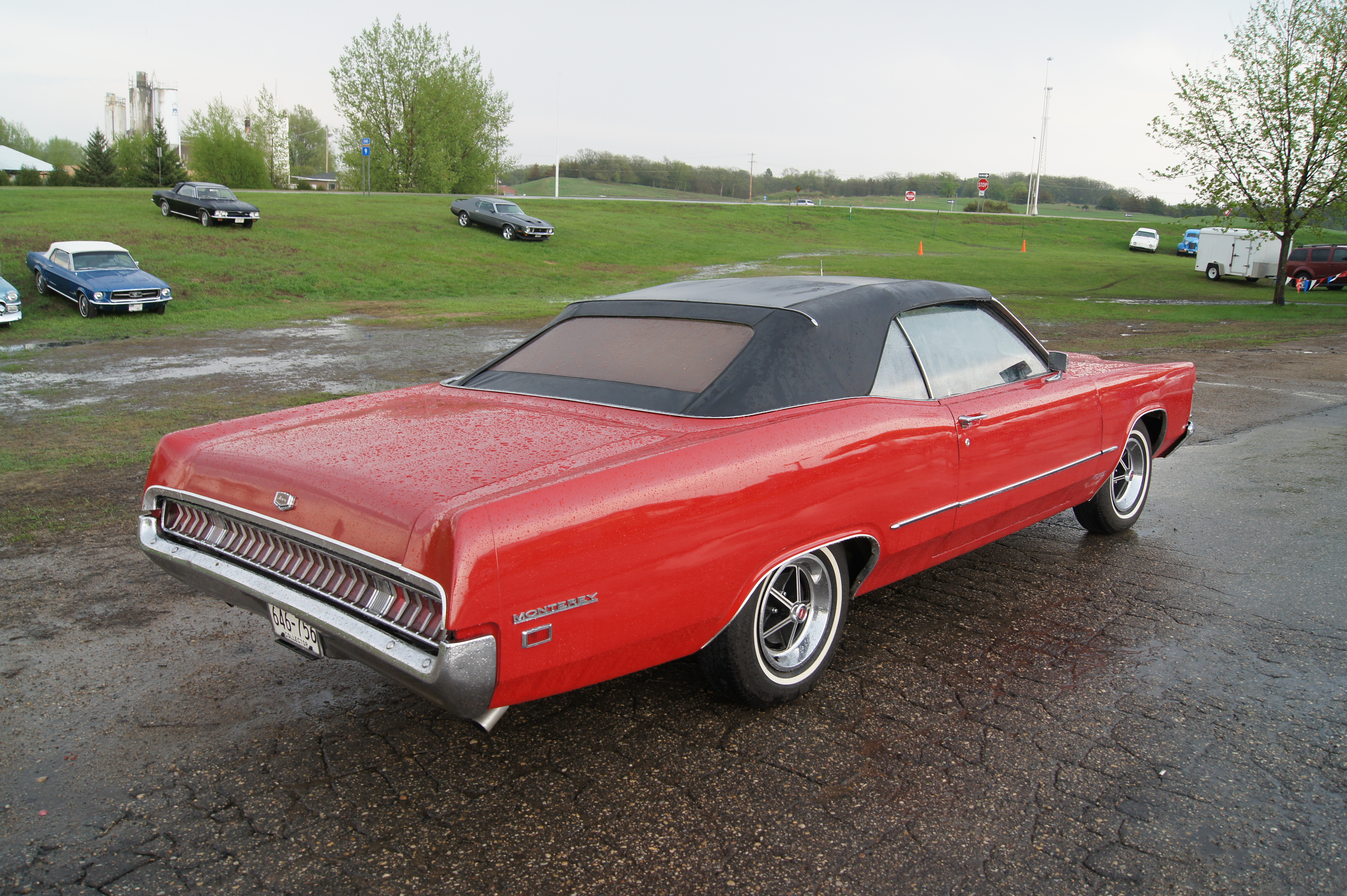 The evening before the Willmar Car Show & Swap Meet, Cars gather at the New London A&W Country Stop for a couple hours before cruising to the Kandi Mall in Willmar. Unfortunately, this was the first year the cruise was rained out. More Car Pictures